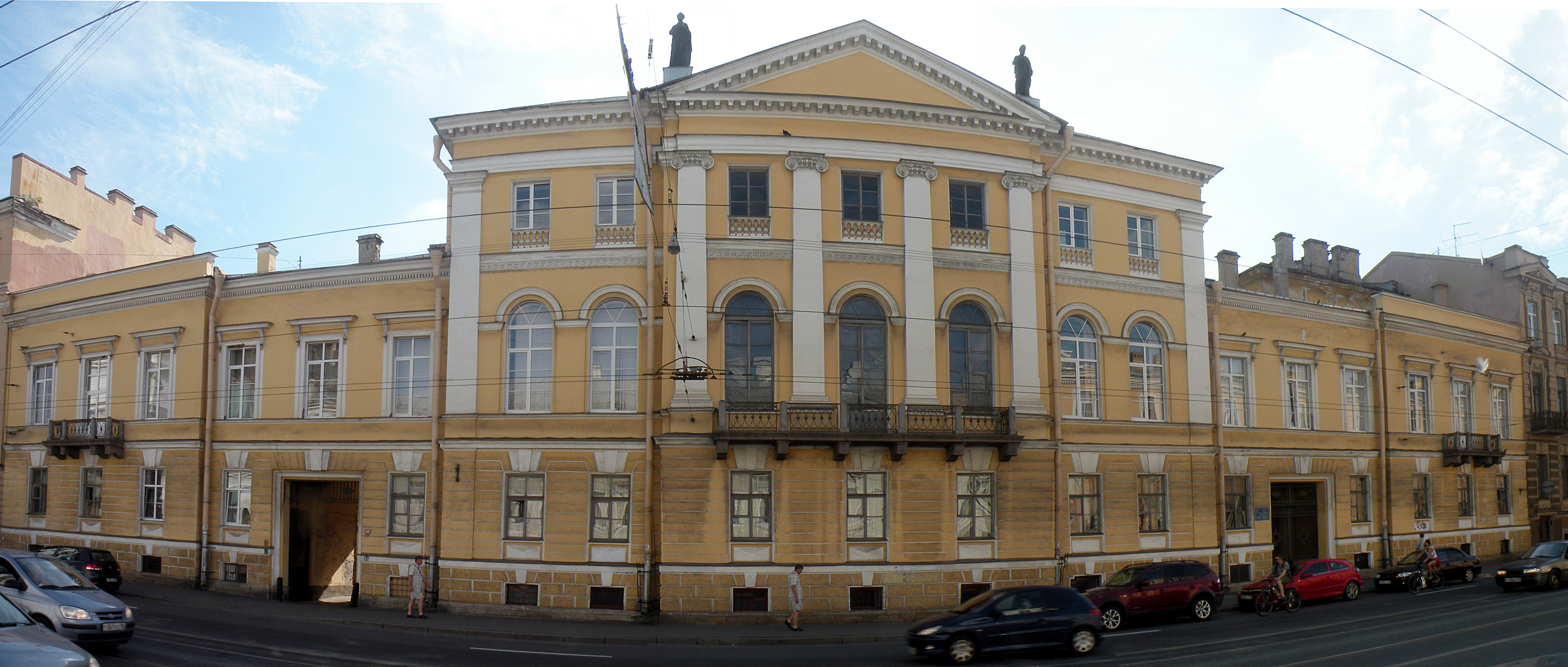 Former Roman catholic Academy in SPb.